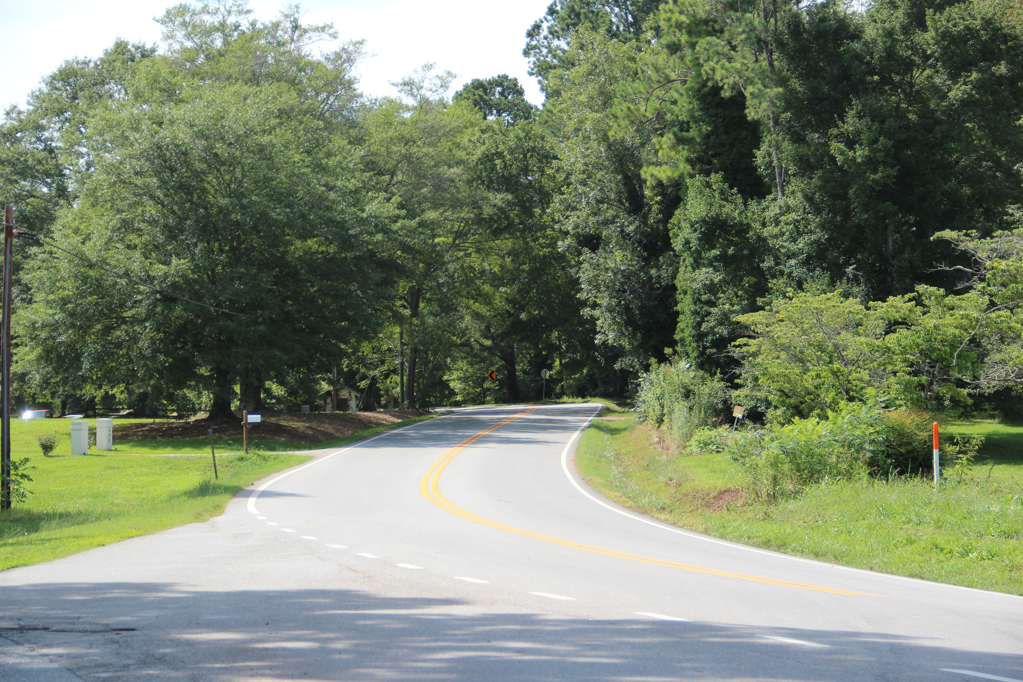 Barber @ GA SR 82, Jackson County, GA